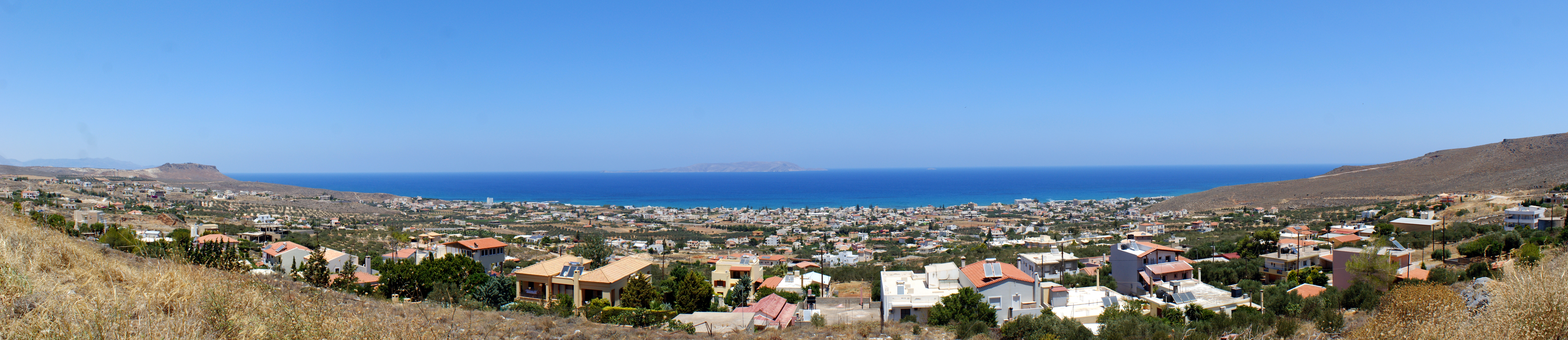 Panoramic view of Gournes, near Heraklion, Crete.